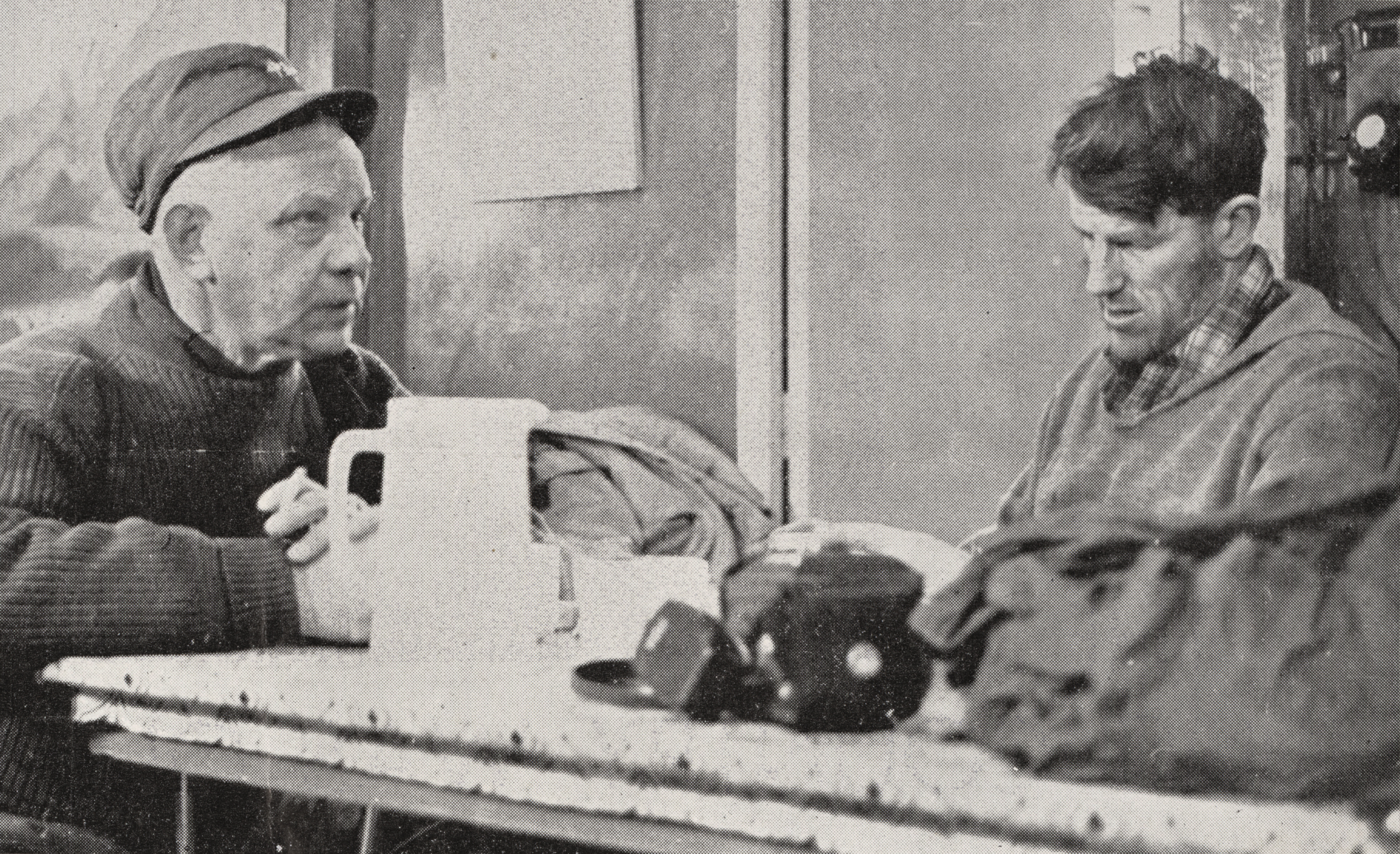 Sir Edmund Hillary (right) discusses final plans with the American task force commander, Rear-Admiral George J. Dufek. From a collection of photographs depicting the departure from Scott Base of the New Zealand tractor train of the Commonwealth Trans-Antarctic Expedition on its depot-laying journey toward the South Pole, published in: "South Polar journey begins". The Weekly News (Auckland, New Zealand: Wilson and Horton): p. 23. 23 October 1957. OCLC 29121953. Photograph taken 1957 by an unidentified staff photographer for The Weekly News and The New Zealand Herald. Original page physical description: Photolithographs on page, 435 x 310 mm. This version has been cropped, and has had brightness/contrast adjustments.